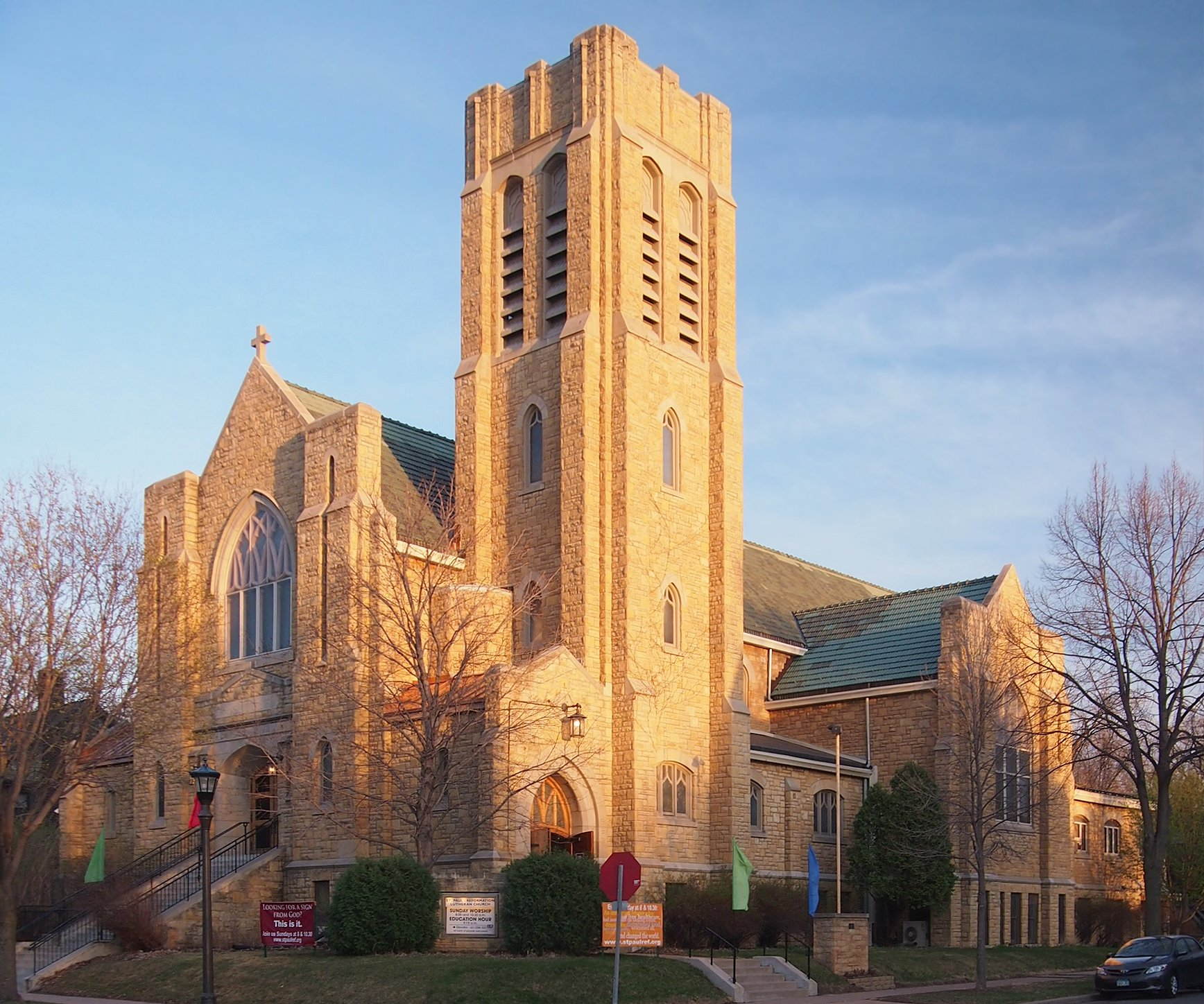 St Paul–Reformation Lutheran Church, 100 N Oxford St, St Paul, Minnesota, USA. Viewed from the northwest.